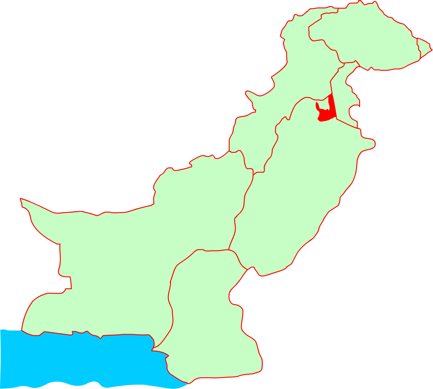 Location of Rawalpindi in Pakistan